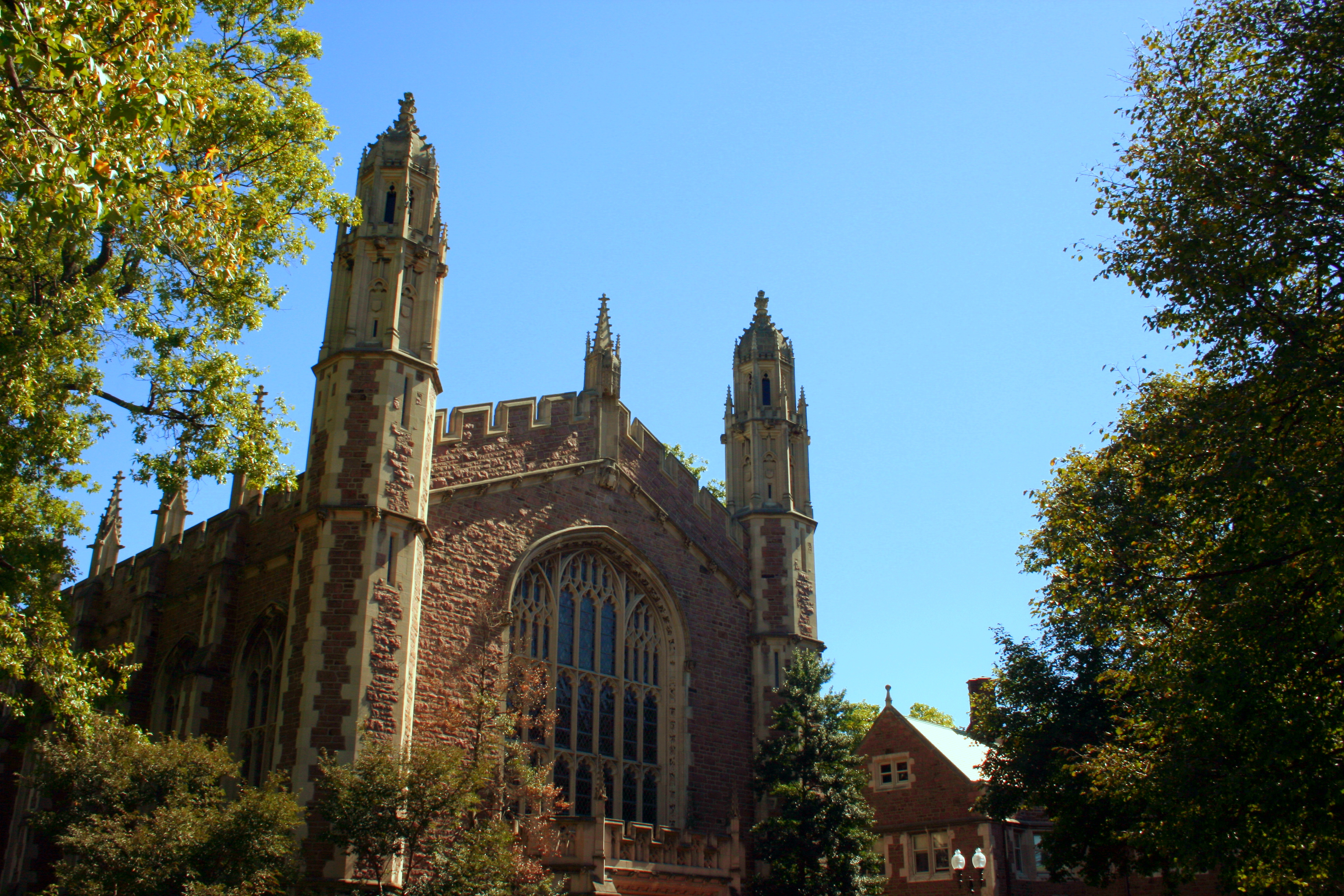 Graham Chapel at Washington University in Saint Louis